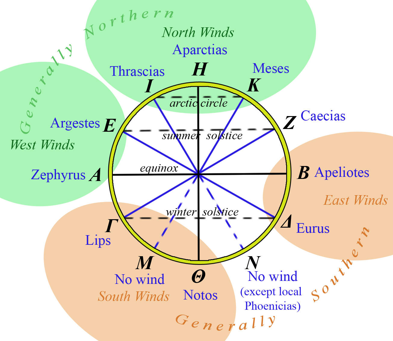 Depiction of the wind rose of Aristotle, on the basis of his his Meteorologica. For simplicity, this depiction assumes that winds are at 30-degree angles on a compass rose (an assumption that is not necessarily implied in Aristotle's text).